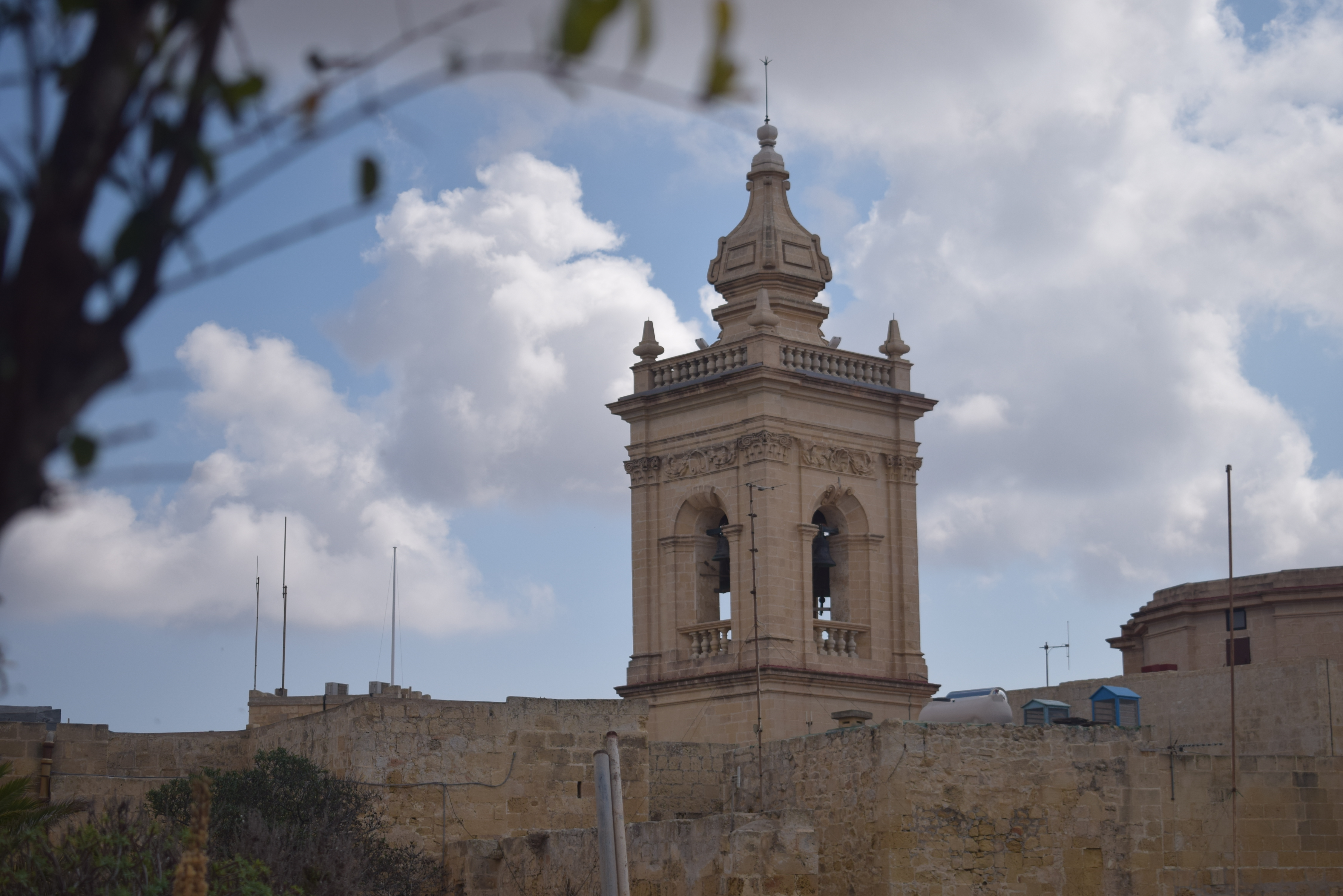 This media is about Maltese cultural property with inventory number 00889.